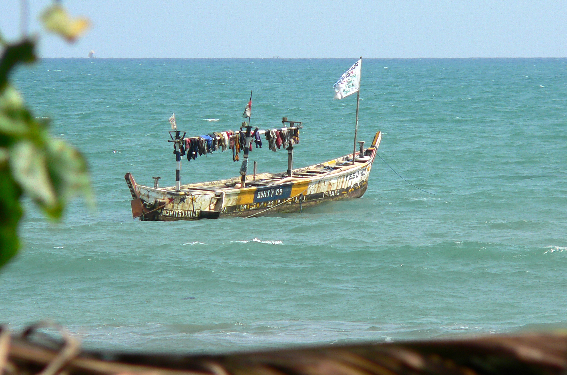 Traditional fishing boat in the atlantic ocean at Ghana coast.